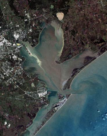 Trinity Bay, (above), and Galveston Bay, in southeast Texas. Houston Texas is the fourth largest city in the United States with a population of 2 million. This image is a clipped version of a satellite shot of the Houston area (clipping by M. Corazao)